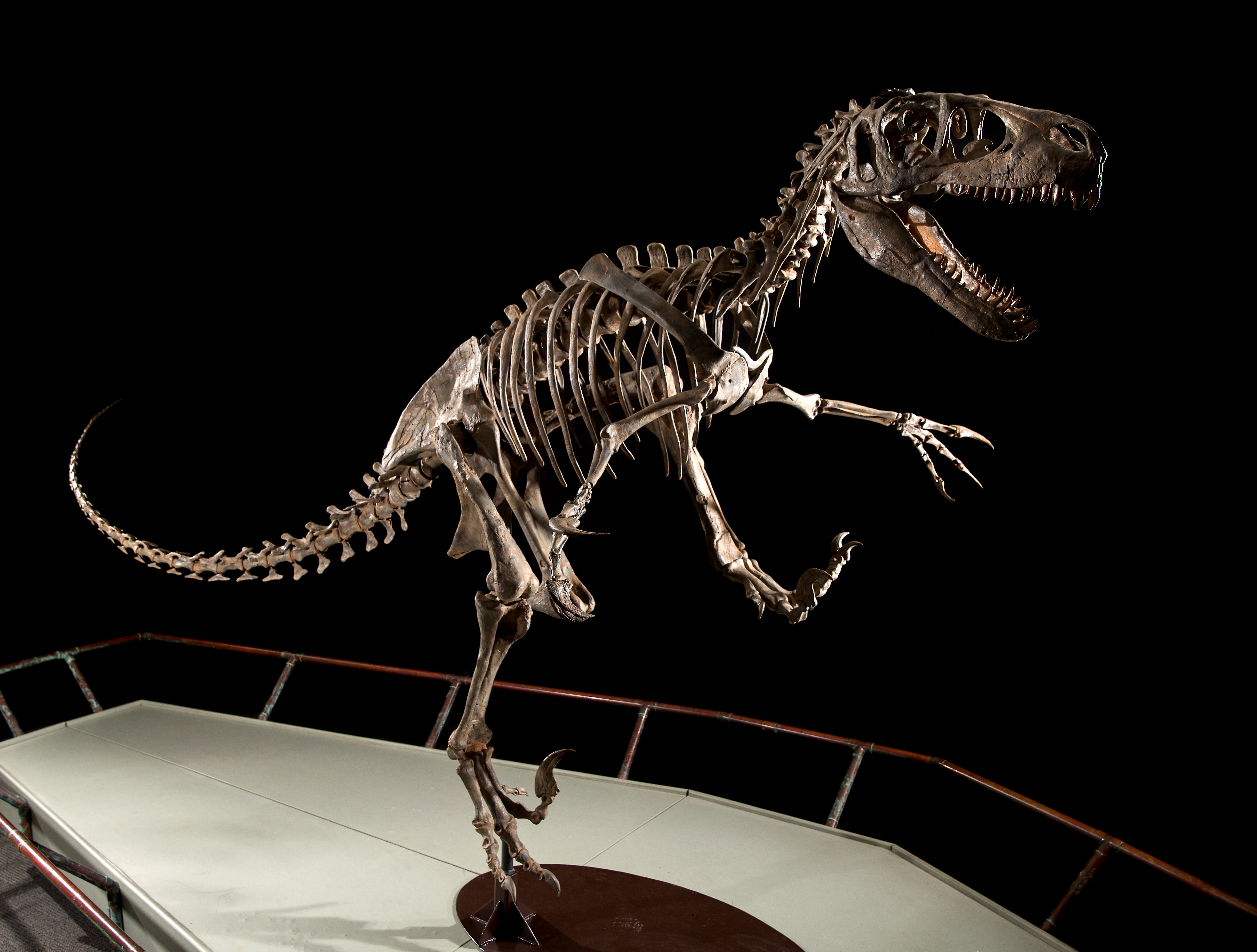 1801-46 Utahraptor skeleton BYU's Museum of Paleontology displays a Utahraptor skeleton cast from bones in the BYU collection. January 26, 2018 Photo Illustration by Jaren Wilkey/BYU (801)422-7322